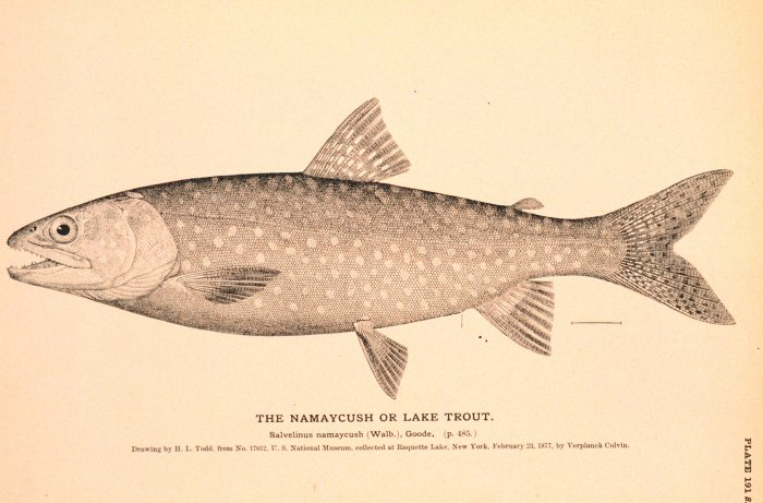 Plate 191B. The Namaycush or Lake Trout. Salvelinus namaycush (Walb.), Goode. National Oceanic and Atmospheric Administration